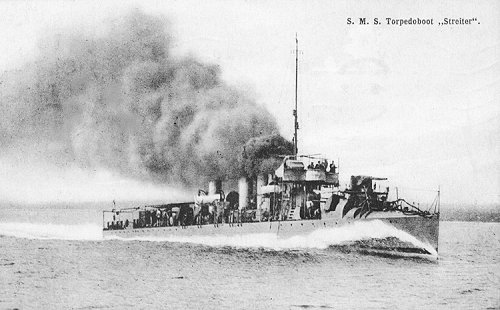 Austro-Hungarian destroyer (SMS Streiter) - copyright expired